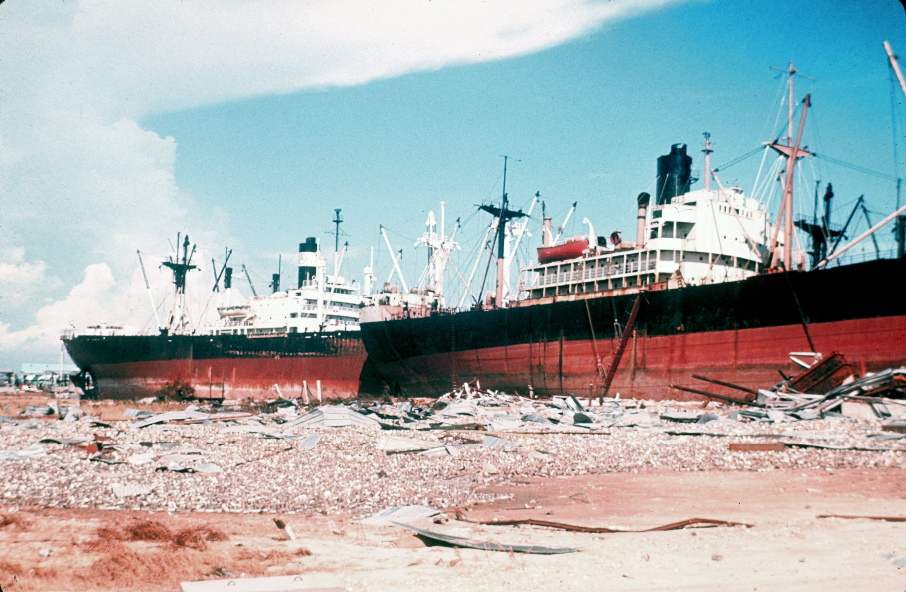 The aftermath of Hurricane Camille. Large ships were no match for Camille.